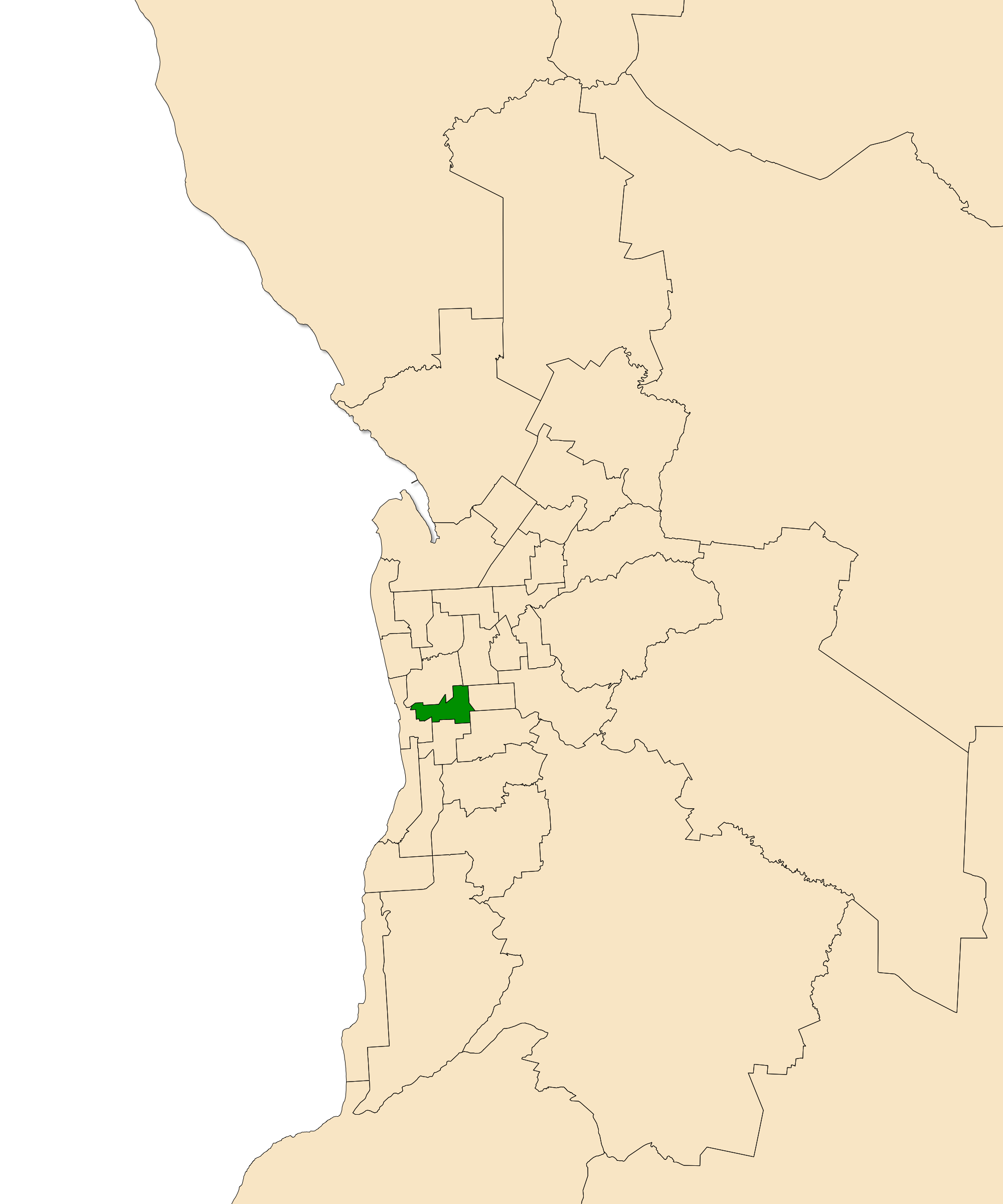 The South Australian electoral district of Ashford, shown dark green in the Greater Adelaide area. Map derived from data at South Australia Department of Planning, Transport and Infrastructure, licensed under a Creative Commons Attribution 3.0 Australia Licence.